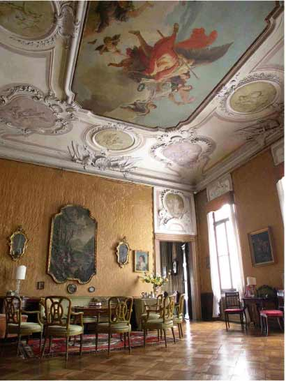 The "Sala Tiepolo" room of Palazzo Barbarigo Minotto in Venice), almost entirely decorated by the Venetian master Giovanni Domenico Tiepolo. The wall silks are original Fortuny.